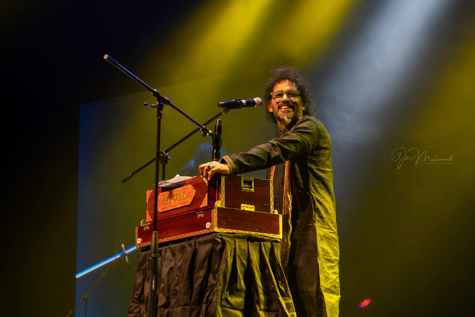 Shahabaz Aman Performing in Doha, Qatar. 2019